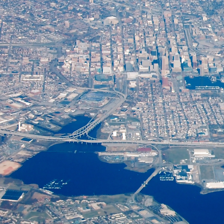 A view of I-395, a spur of I-95 which travels into downtown Baltimore. M&T Bank Stadium and Camden Yards are visible.